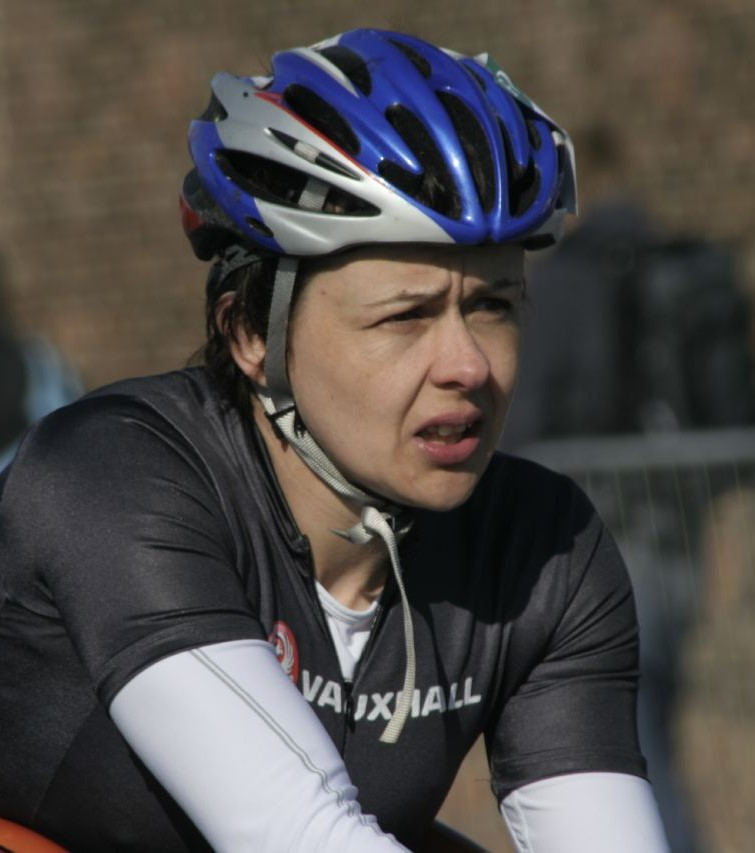 Carys Davina "Tanni" Grey-Thompson, Baroness Grey-Thompson, at the Flora London Marathon in April 2005.